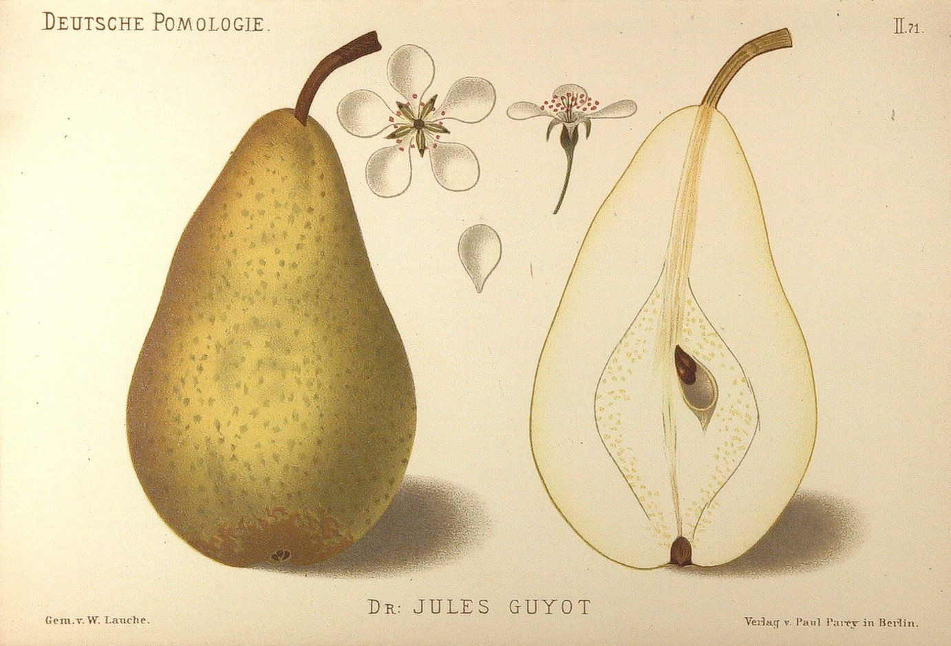 Page 71 from Deutsche Pomologie — Birnen, by Wilhelm Lauche, 1882. Published by Deutsche Pomologen-Vereins (German Pomological Society). Part of a series from the same book. The others can be found in Category:Deutsche Pomologie - Birnen Depicted pear cultivar: Dr. Jules Guyot